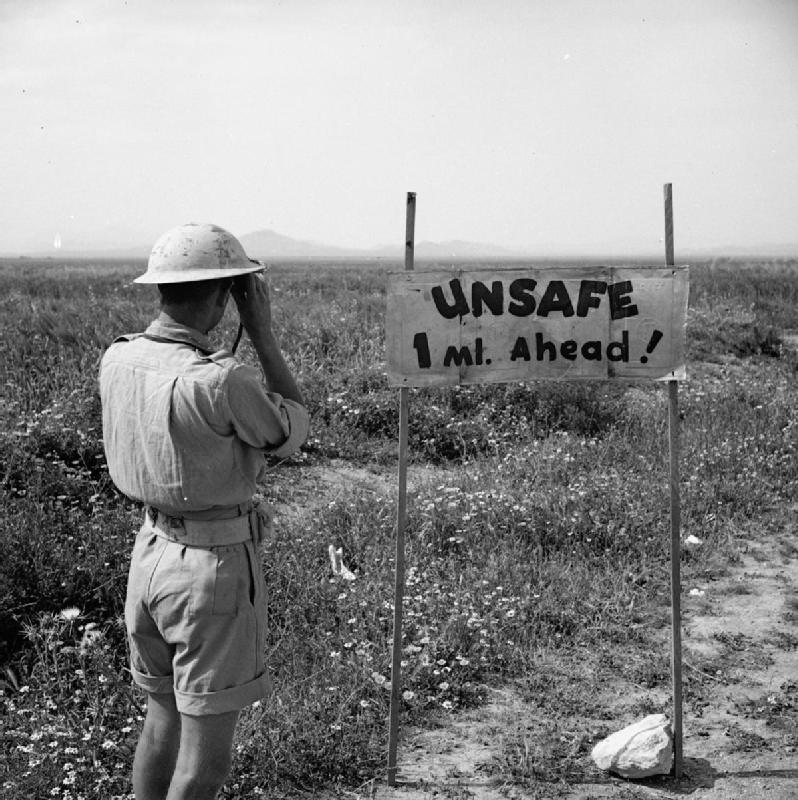 Tunisia Front - 8th Army at Enfidaville Entering the 'danger zone' on the Enfidaville road, Sergeant Brailey of the 8th Army is scanning the hills for sign of the enemy.